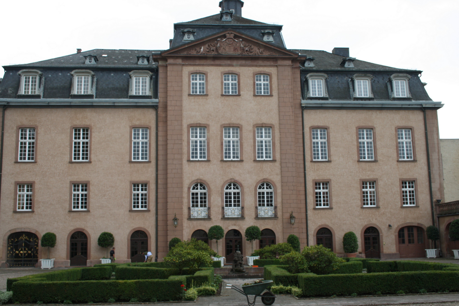 Germany, Hesse, Birstein, Castle